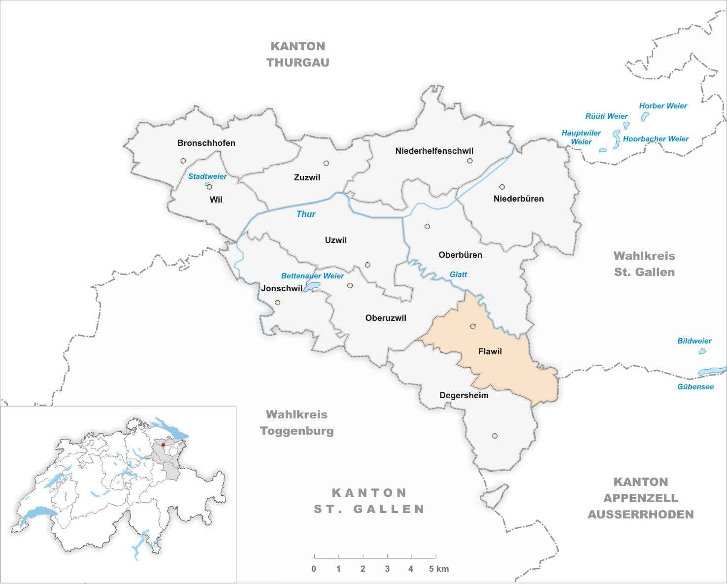 Municipality Flawil